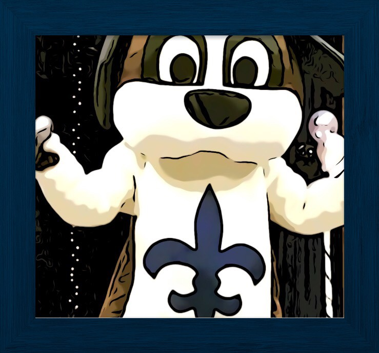 St. Thomas Aquinas High School mascot, Bernie. Dover, NH